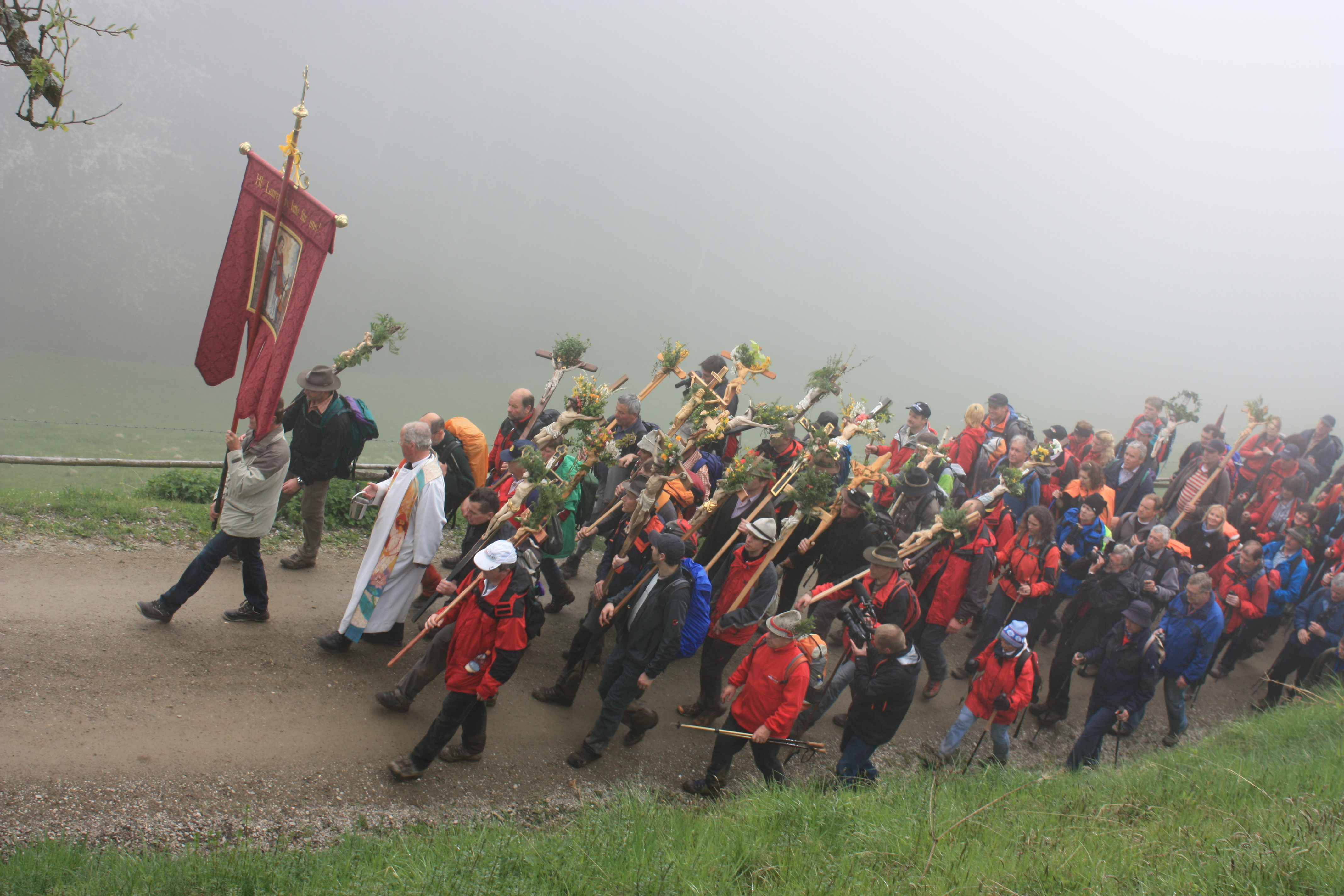 Vierbergelauf: Arrive of the pilgrims at the Lorenziberg Locality:Lorenziberg Community:Frauenstein